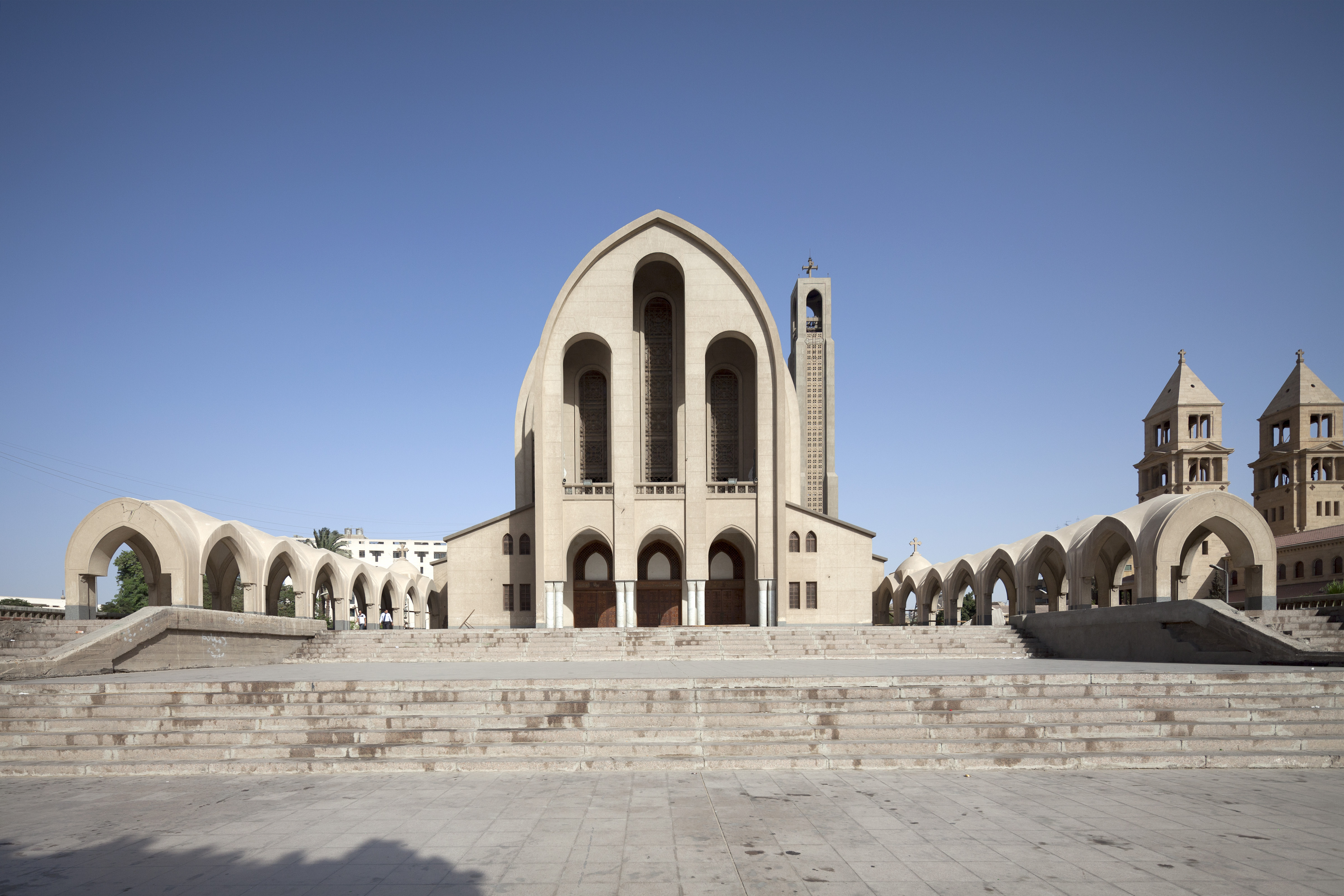 Entrance of the St. Mark Cathedral, el-'Abbasiya, Cairo, Egypt